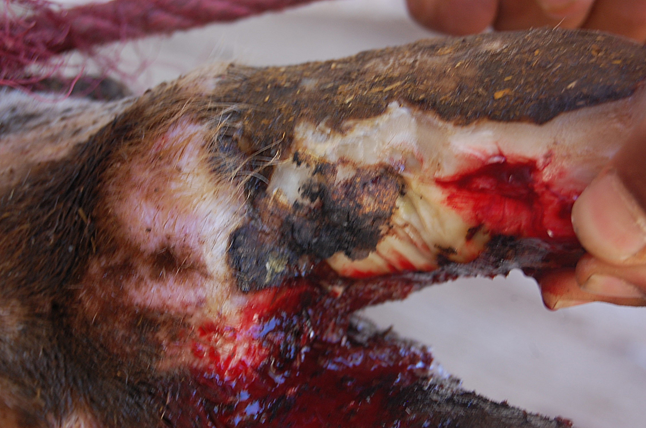 Interdigital skin hyperplasia: after final cauterization